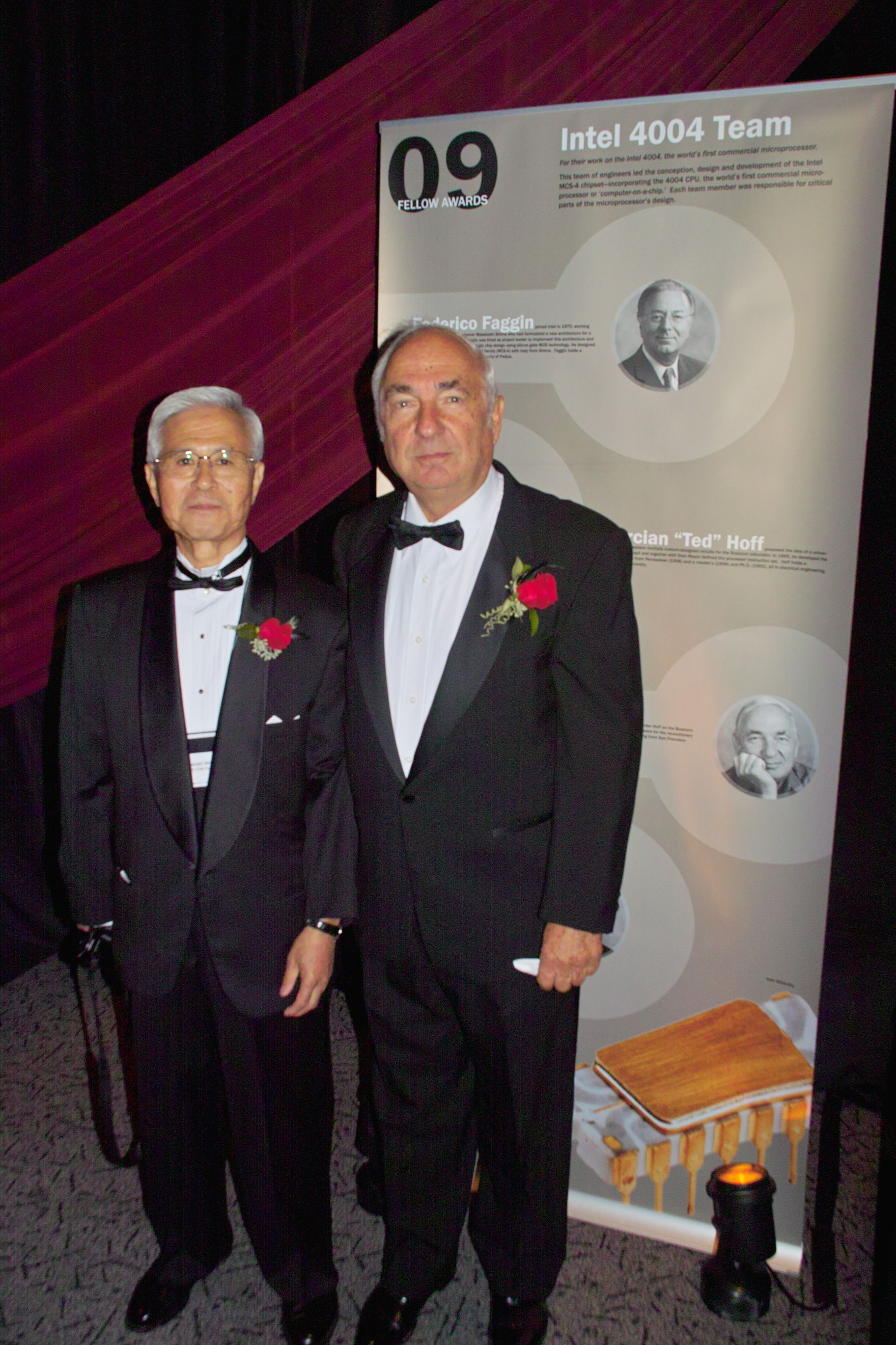 Masatoshi Shima (left) and Stan Mazor (right), at the Computer History Museum's 2009 Fellows Award event, where they were inducted fellows.